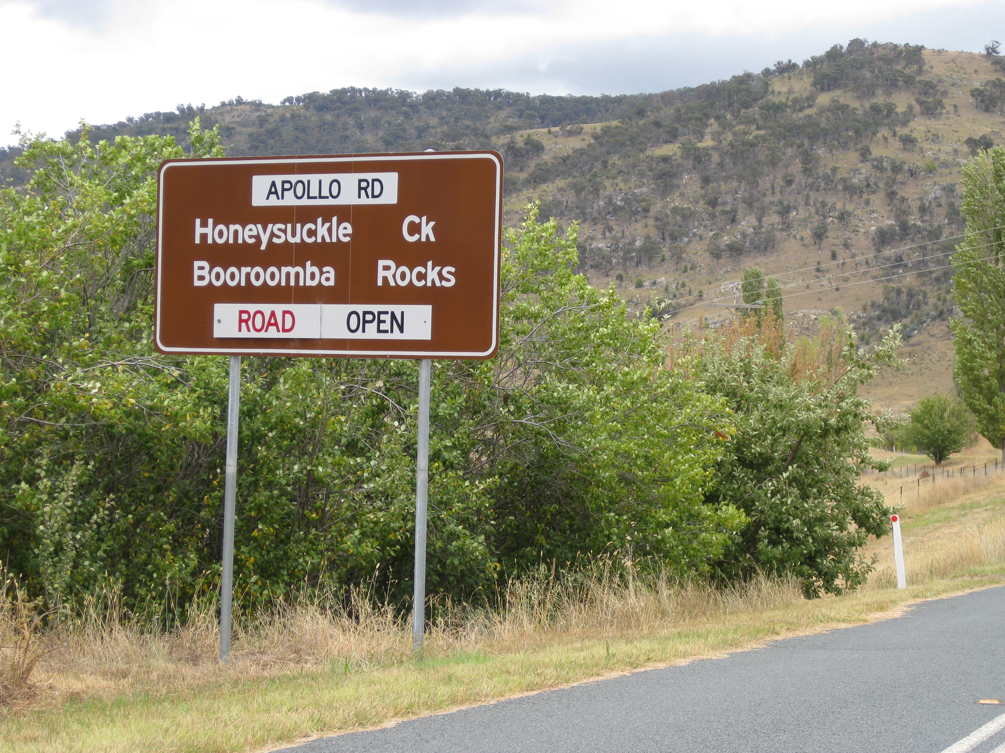 Apollo Road in Tennent, Australian Capital Territory - The road to Honeysuckle Creek